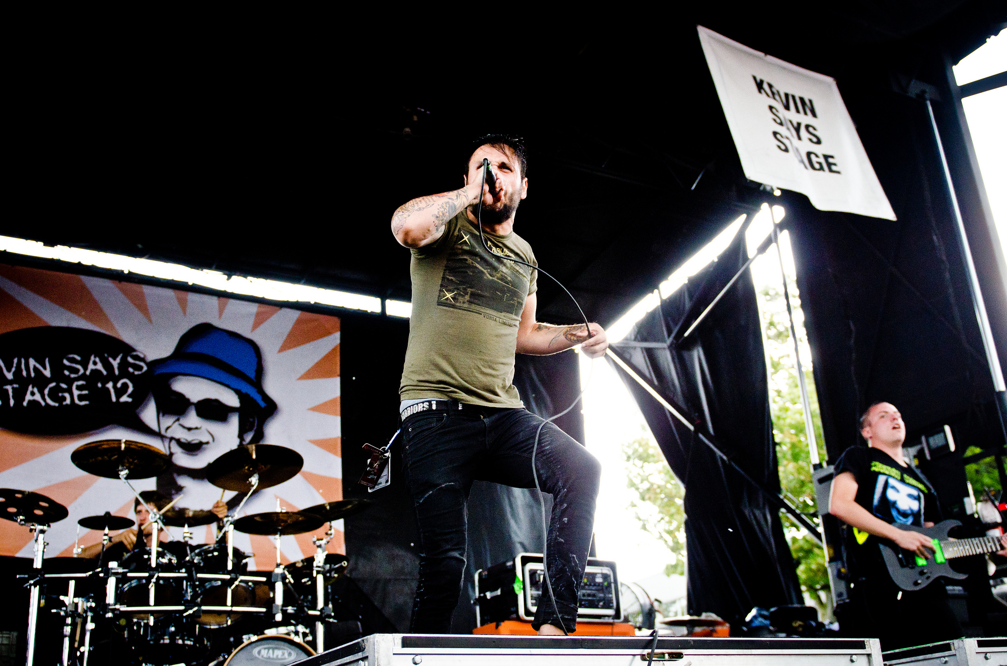 Vans Warped Tour 2012 - Toronto. (Photo by Bernarda Gospic)